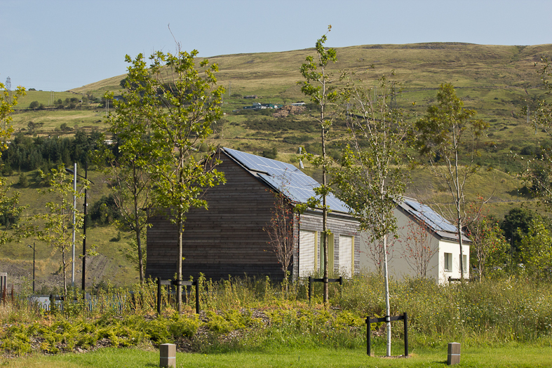 Photograph of bere:architects Welsh Futureworks Housing, designed by Justin Bere.